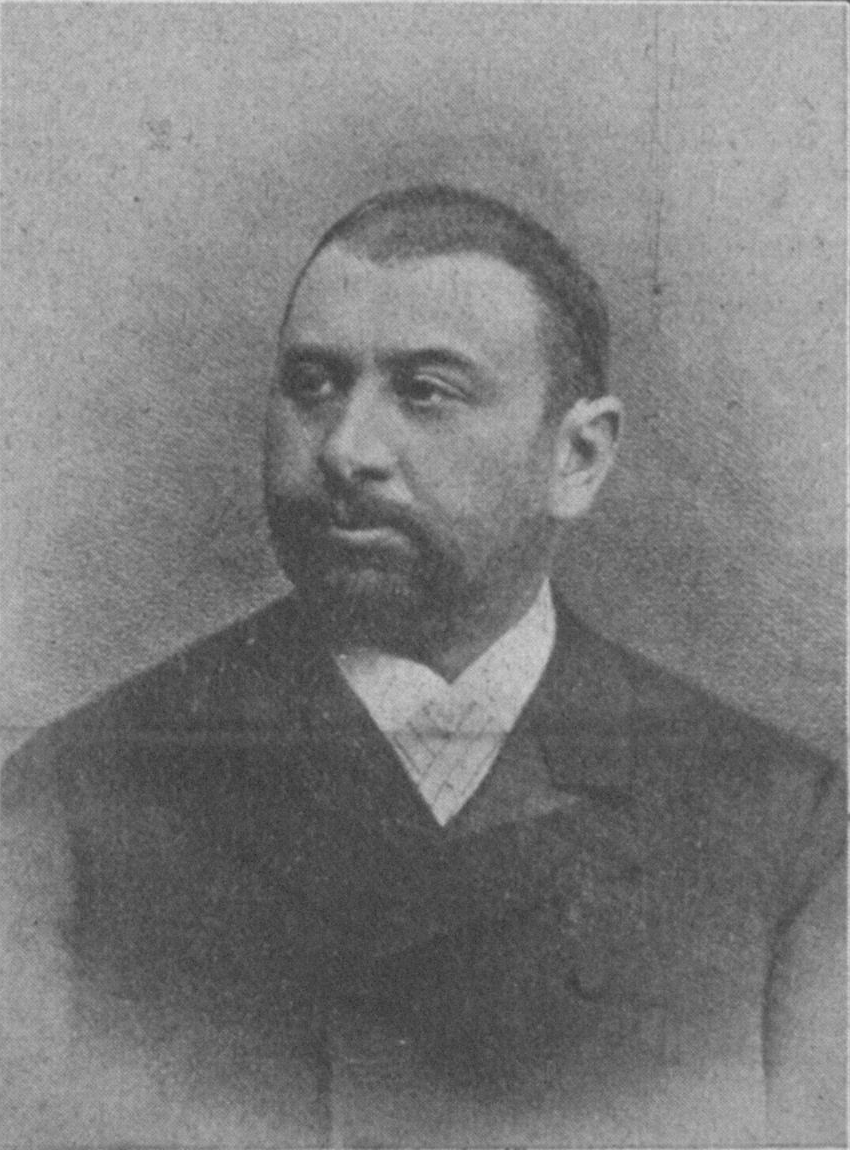 Moriz Benedikt (1849-1920), Austrian journalist and publisher